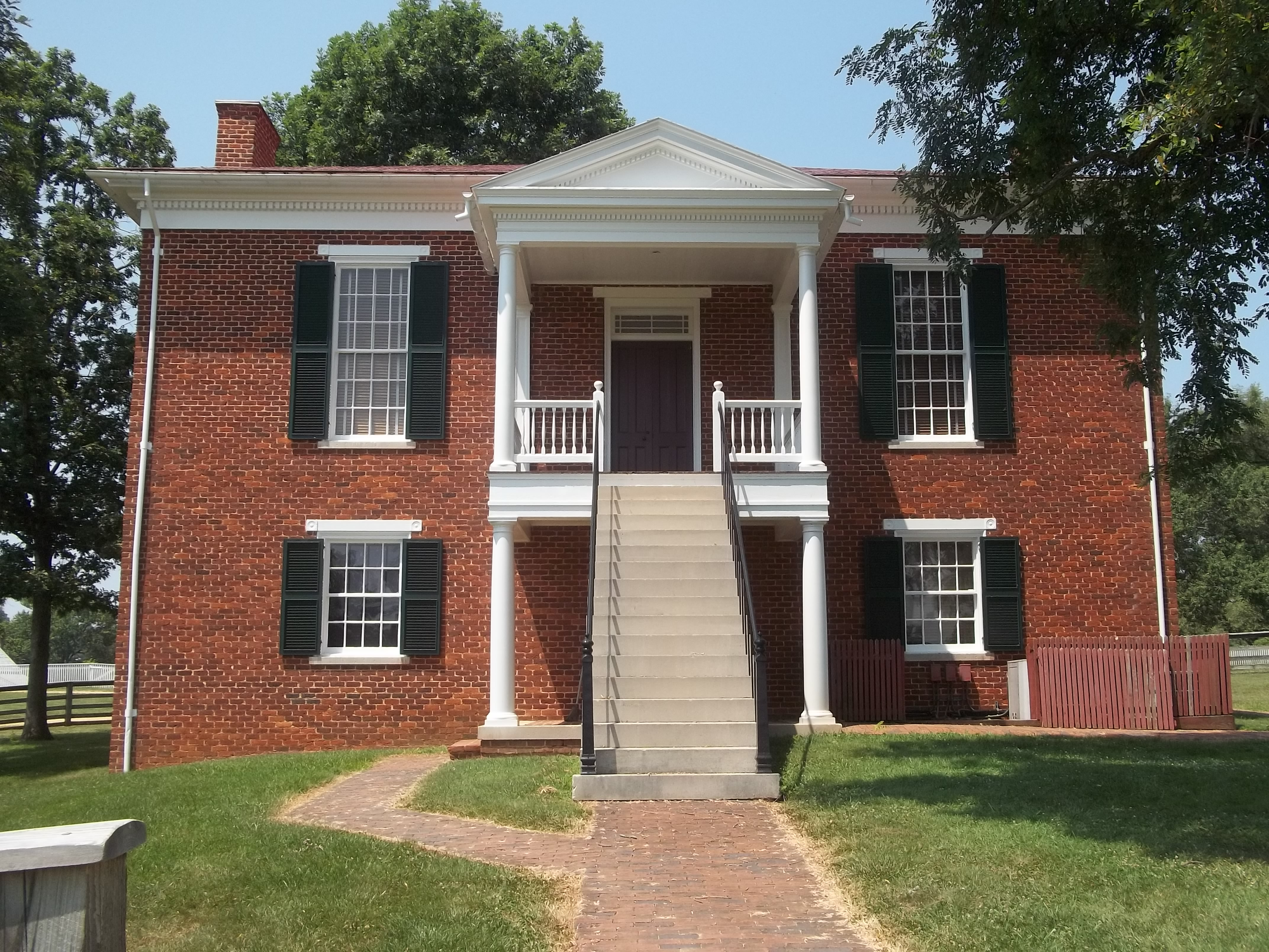 Appomattox Court House